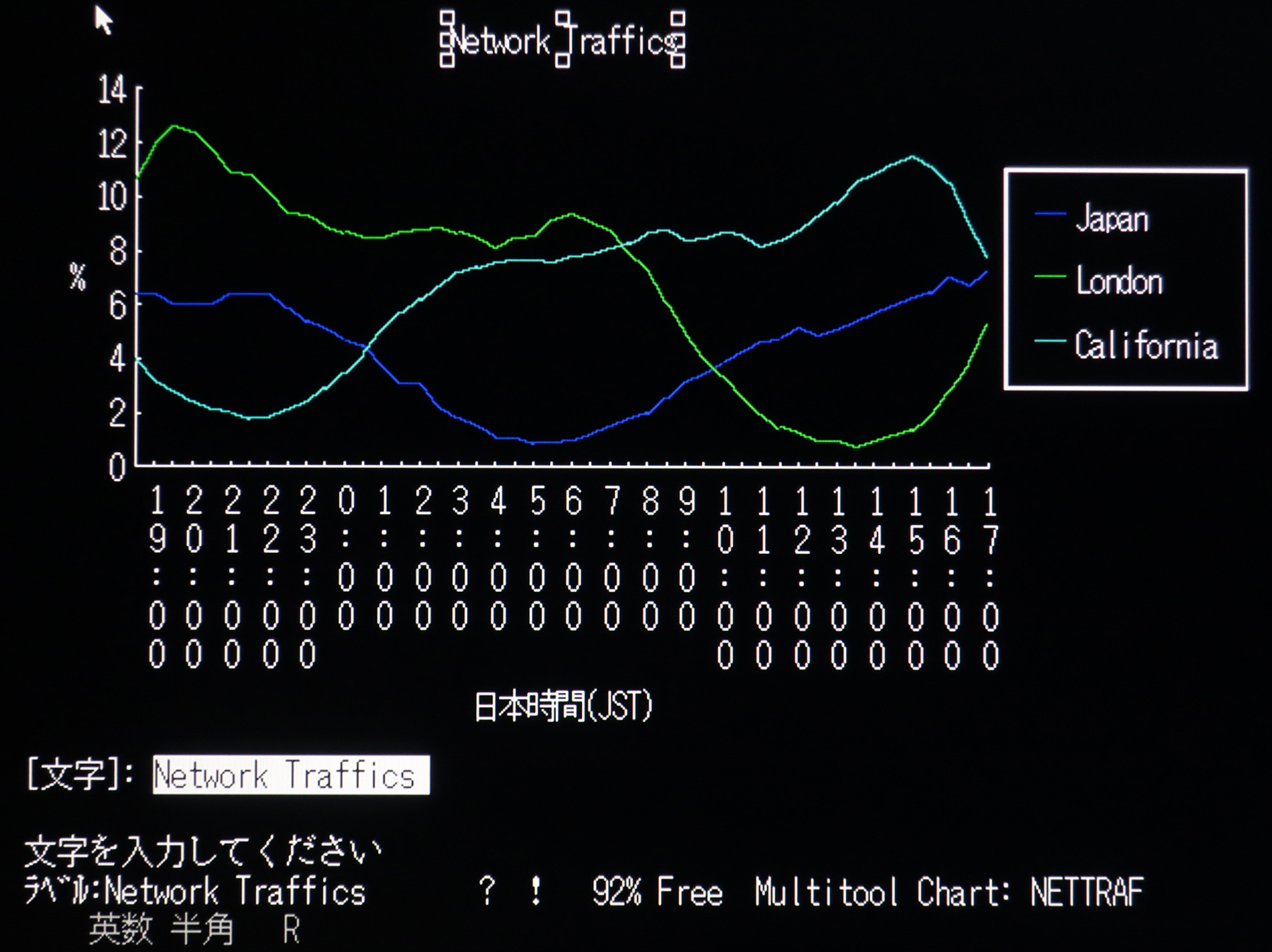 Screenshot of charting with IBM Multitool Chart Version K3.16 (1991), a version of Microsoft Chart Version 3.0, running on the Japanese DOS/V.